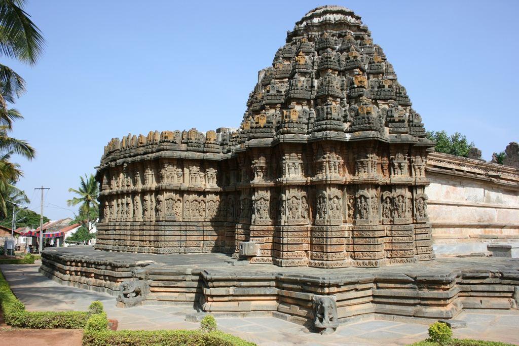 Template:Chennakeshava temple at Aralaguppe